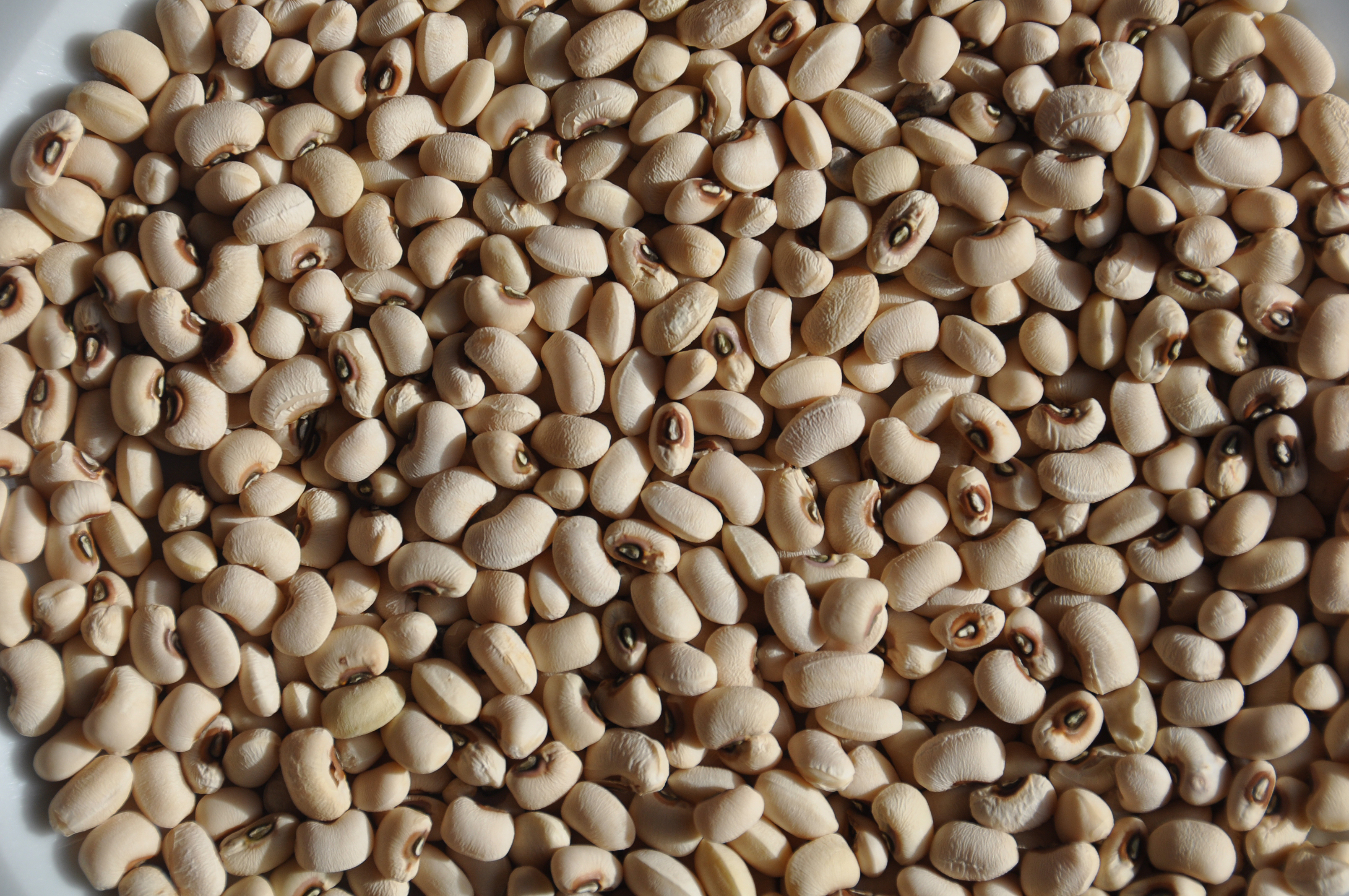 Piràmide d'aliments de l'Empordà